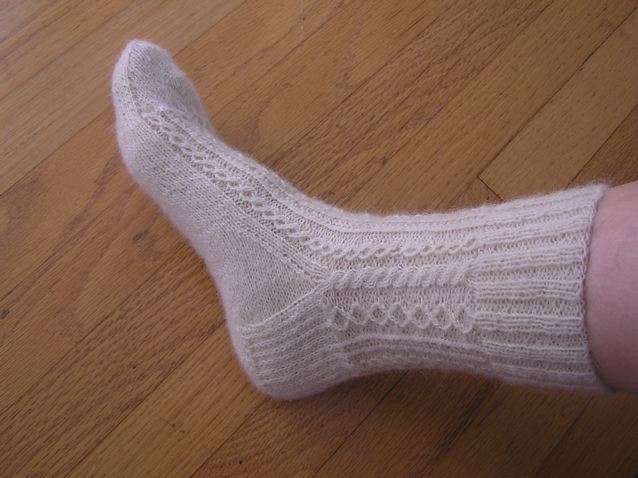 A hand knitted white lace sock award for generosity made out of handspun wool- a blend of Cotswold and mutt.